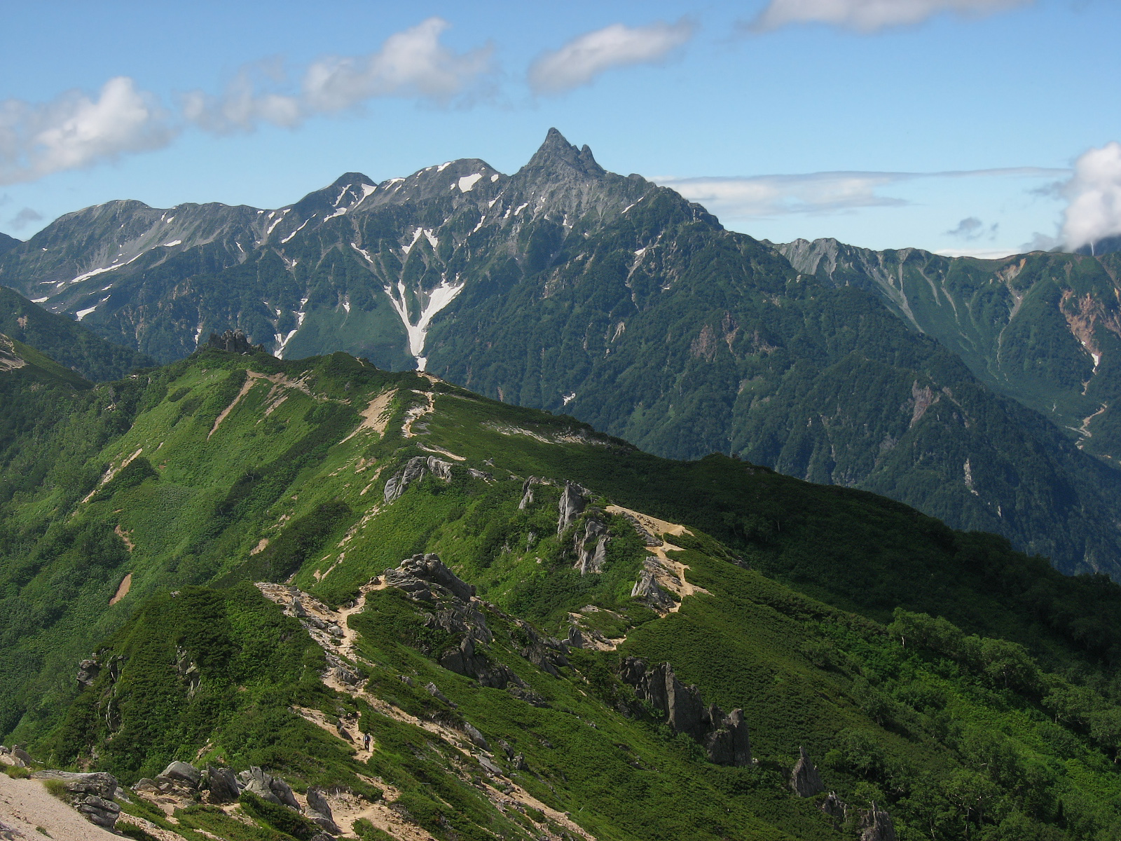 View of Mount Yarigatake from Enzansou.